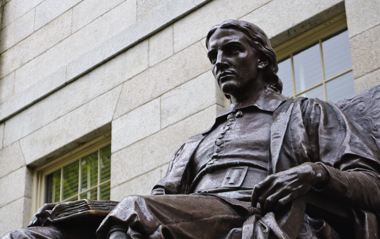 The statue of John Harvard, seen at Harvard Yard, and a key landmark on the Harvard campus. John Harvard (1617-1638) graduated from Emmanuel College in Cambridge, England, then emigrated to Massachusetts in 1637. Upon his death, he bequeathed his library and half of his estate to the "Colledge at Newtowne," which had been founded by the Massachusetts Legislature in 1636. In response, by the time the first students enrolled in 1638, the college, the first in North America, was renamed Harvard College. As John Harvard died so young, and so soon after his arrival in America, no images of his likeness are known. This statue, sculpted by Daniel Chester French, used Sherman Hoar, Class of 1882, as his model for John Harvard.